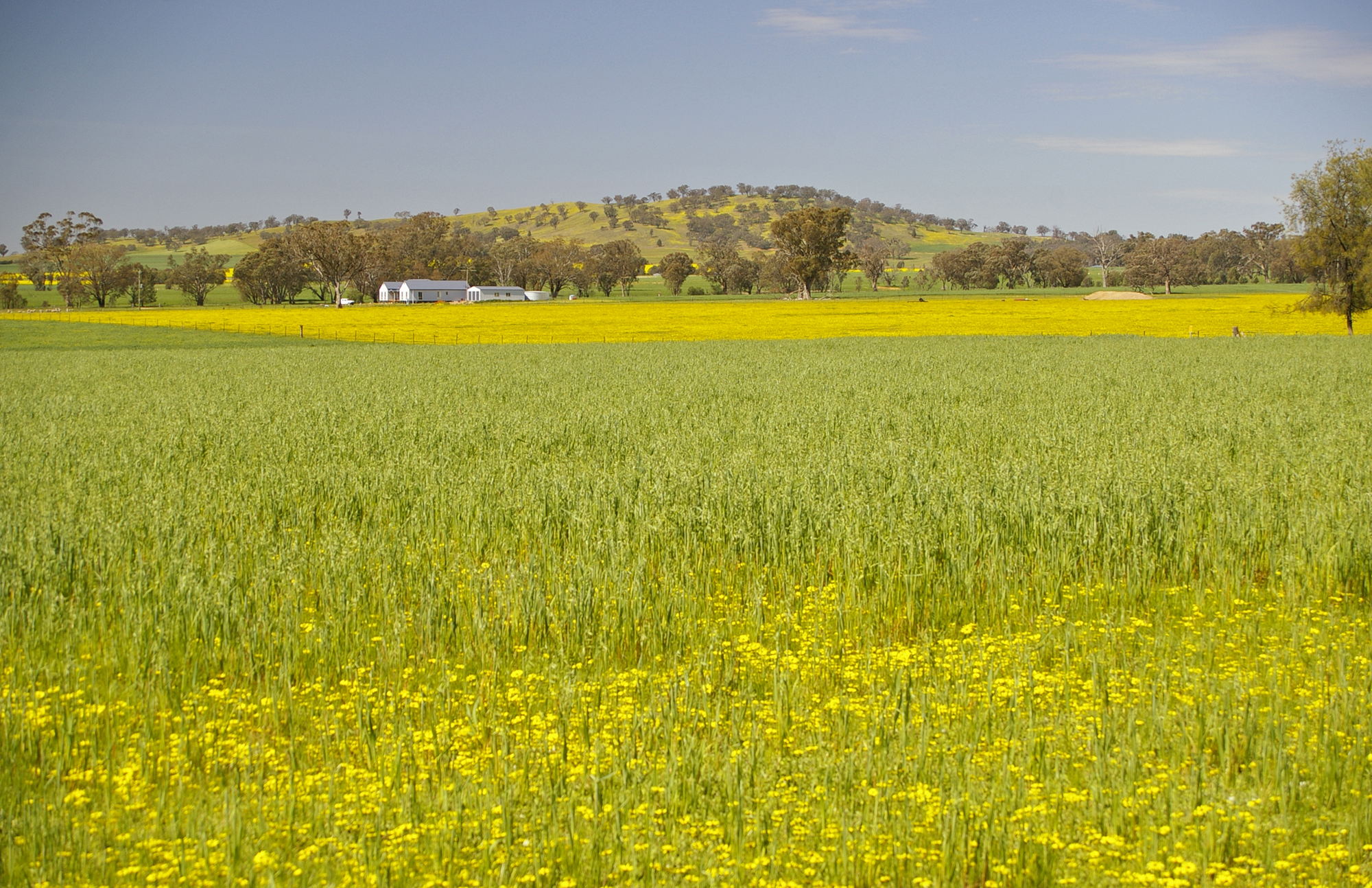 An heat affected Barely or Wheat crop with an invasion of Capeweed (Arctotheca calendula) during an green drought in Gregadoo, New South Wales. Photograph was taken the temperature was 27.4°C, Dew point; -7.3°C and Relative humidity; 10%.